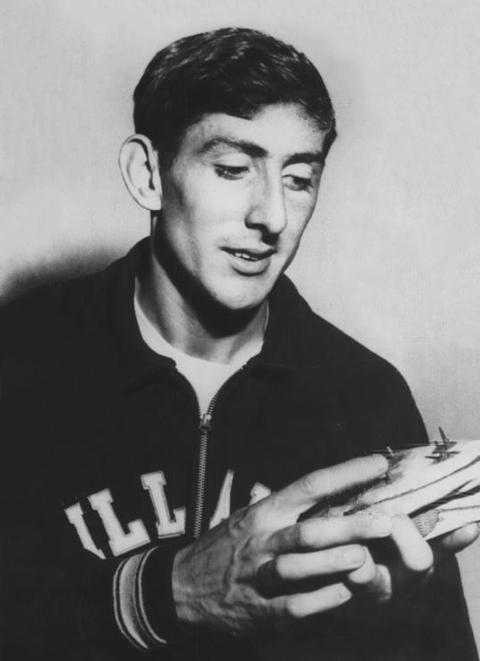 1957 Press Photo Ron Delaney in Austin Texas for NCAA track meet - net12013